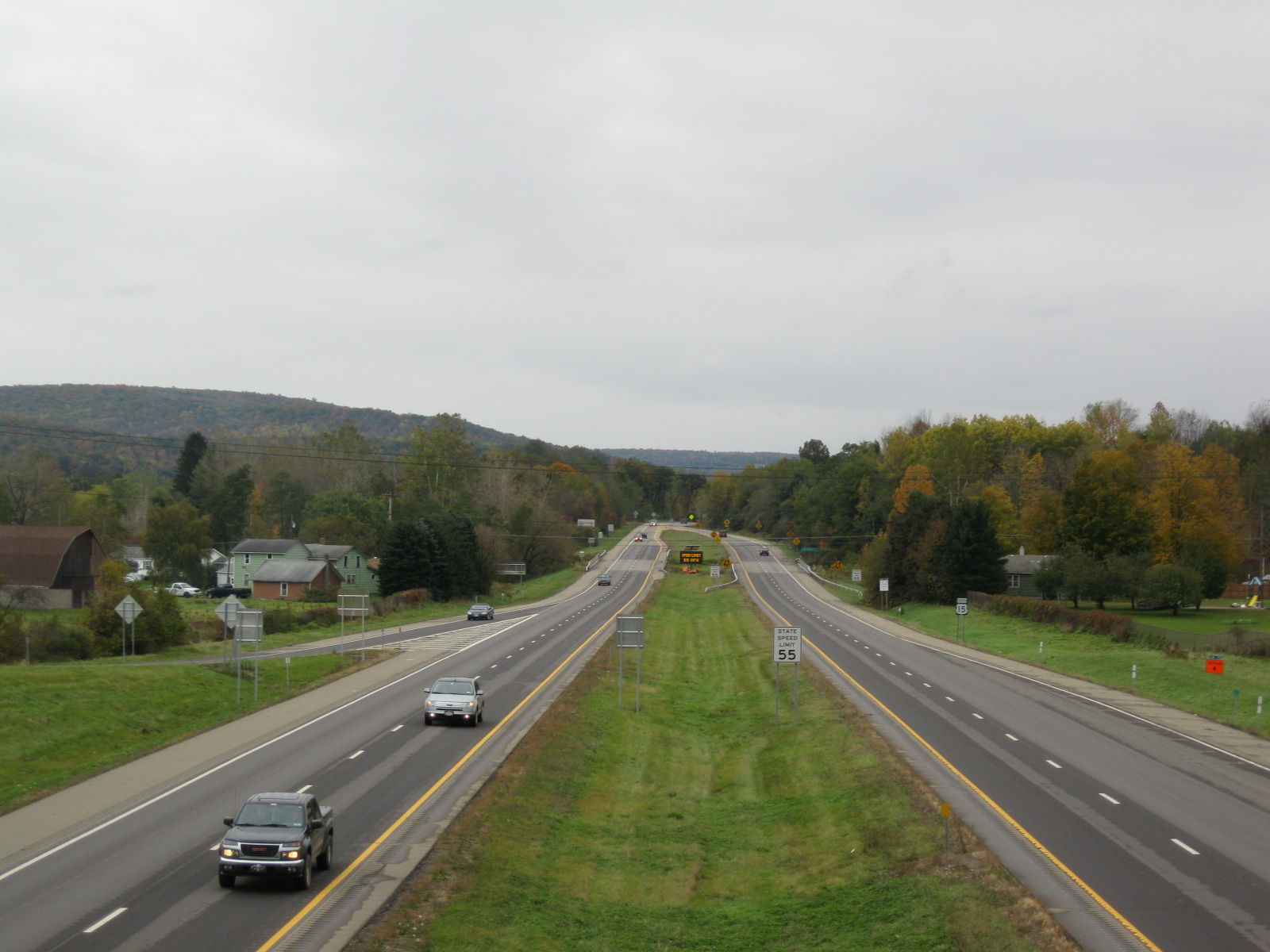 Looking southward along U.S. Route 15 from the Smith Road overpass in Presho, New York. As of 2010, the US 15 freeway ends (heading southbound) at Smith Road and resumes at Watson Creek Road. A project to fill the gap is expected to be completed by 2012. For now, however, the four-lane, divided US 15 abruptly narrows into a two-lane, undivided highway south of the Smith Road exit, as shown in the background.